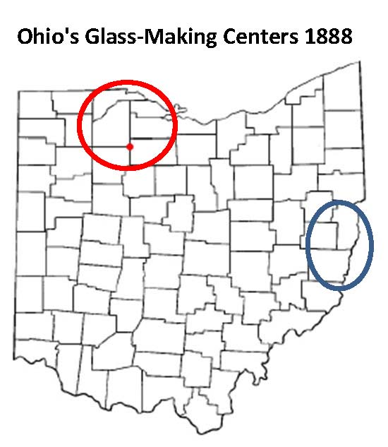 Ohio county map shows Ohio glassmaking centers in 1888. Belmont County and surrounding area is circled in blue. Findlay-Toledo-Fostoria is circled in red.